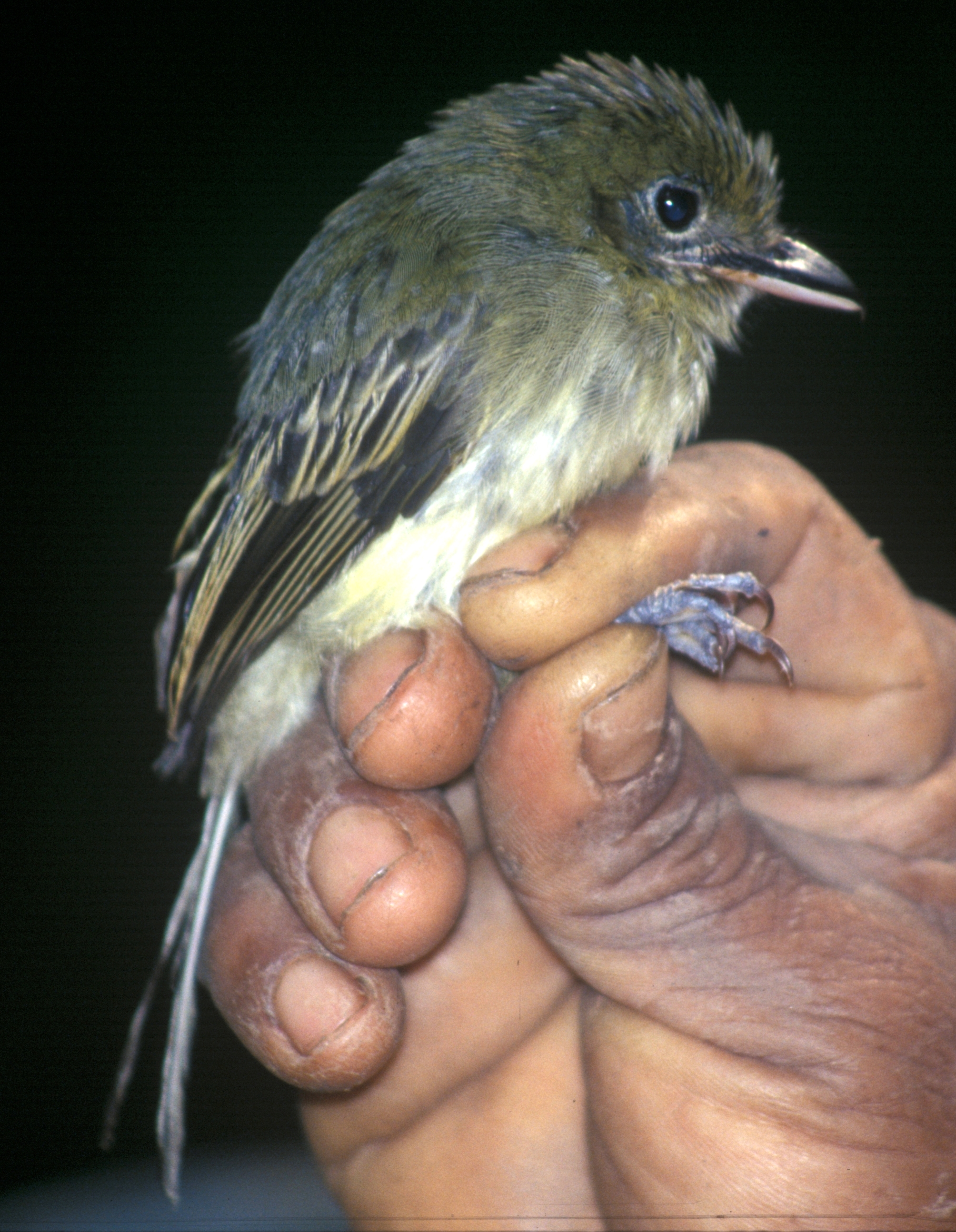 Olivaceous Flatbill (Rhynchocyclus olivaceus) in Ecuador